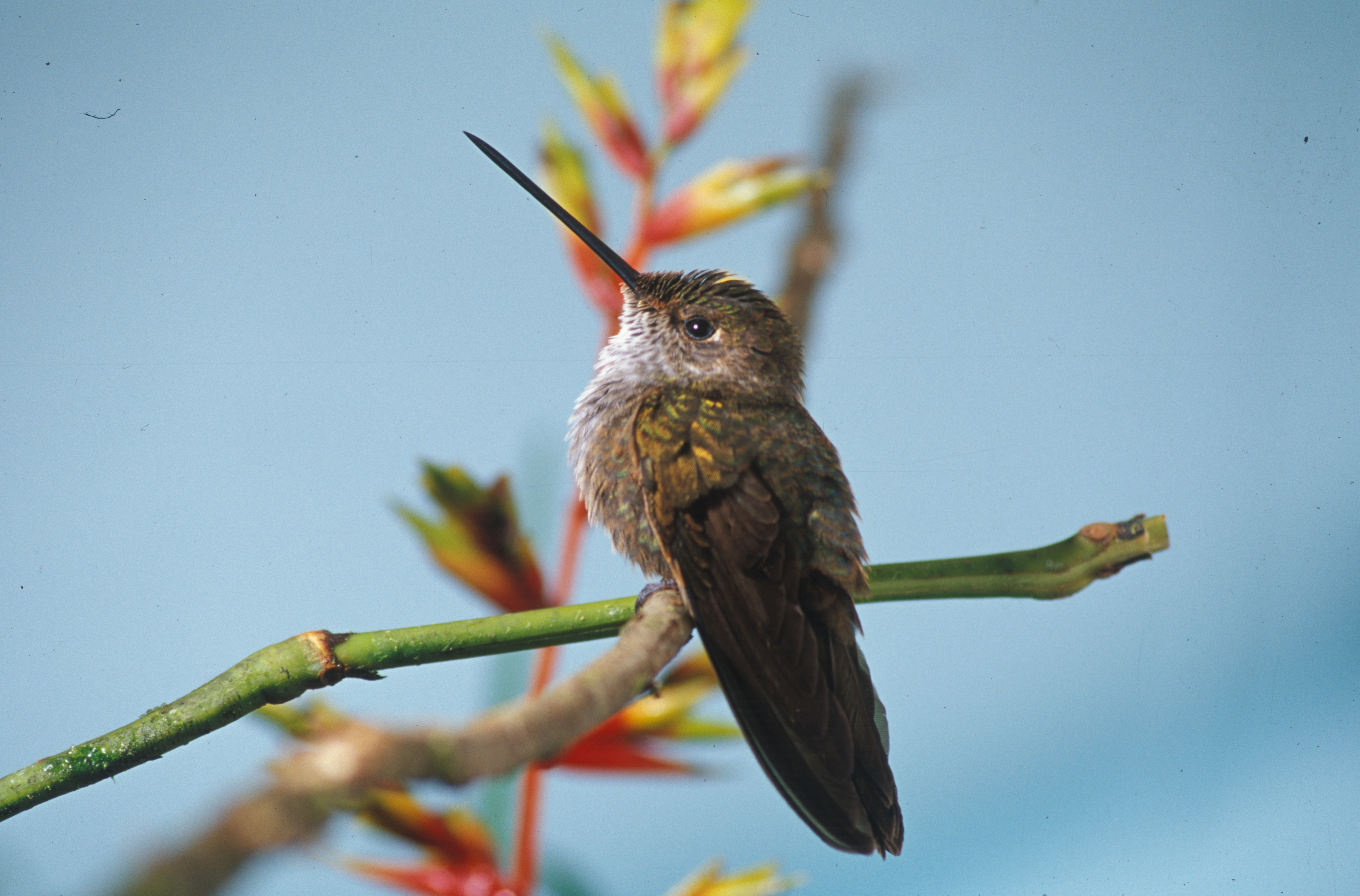 Bronzy inca (Coeligena coeligena) from the NBII Image Gallery. Photographed in Cordillera del Cóndor, Ecuador.